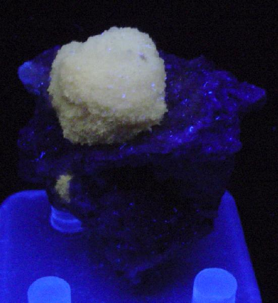 Strontianite, Calcite, Fluorite Locality: National Limestone County Quarry, Lime Ridge, Mount Pleasant Mills, Perry Township, Snyder County, Pennsylvania, USA (Locality at ) Size: 4.7 x 4.5 x 2.5 cm. An interesting looking specimen of a 2.0 cm, radial aggregate of translucent, cream-colored strontianite perched atop a box-work limestone matrix covered with calcite and colorless fluorite microcrystals. The fluorite fluoresces purple and the strontianite has light-yellow fluorescence.